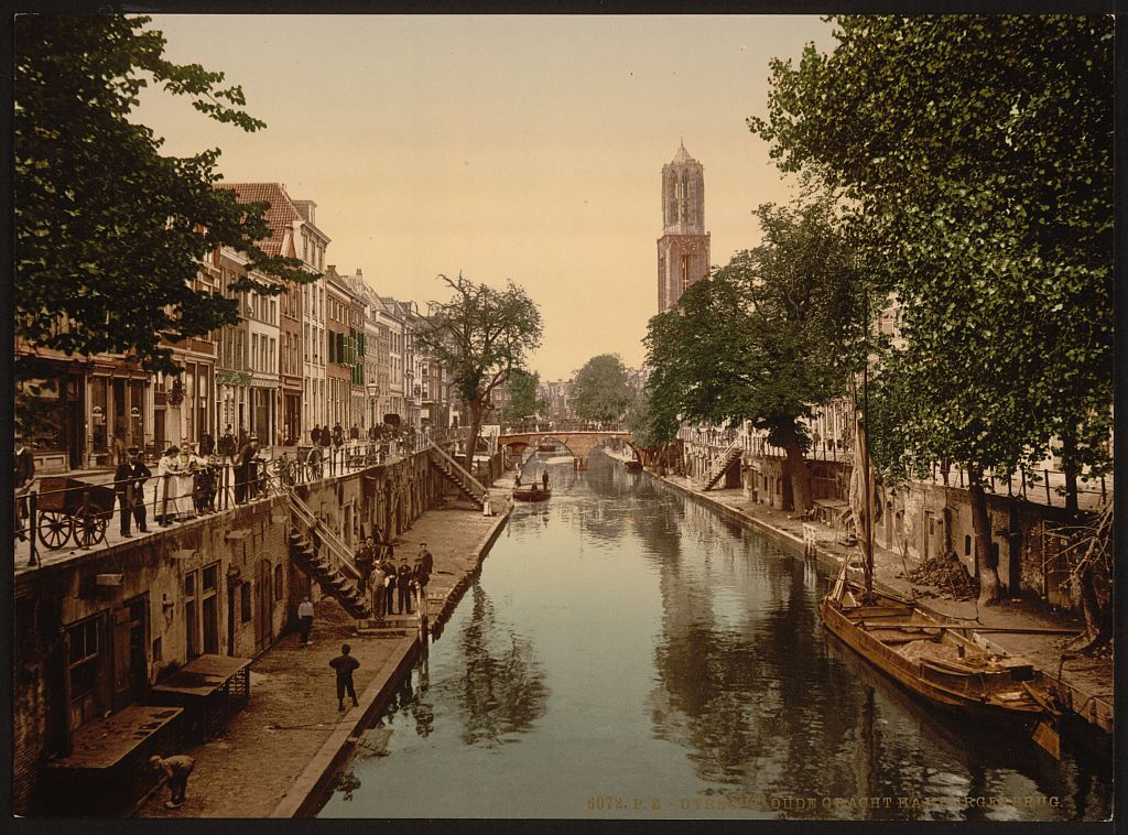 1890 and ca. 1900 photomechanical print : photochrom, color. Notes: Title from the Detroit Publishing Co., catalogue J, foreign section. Detroit, Mich. Detroit Publishing Company, c1905. Print no. "6072". Forms part of: Views of architecture and other sites in the Netherlands in the Photochrom print collection. Subjects: Netherlands--Utrecht. Format: Photochrom prints--Color--1890-1900. Rights Info: No known restrictions on reproduction. Repository: Library of Congress, Prints and Photographs Division, Washington, D.C. 20540 USA Part Of: Views of architecture and other sites in the Netherlands (DLC) 2001697995 More information about the Photochrom Print Collection is available at Persistent URL: Call Number: LOT 13423, no. 108 [item]